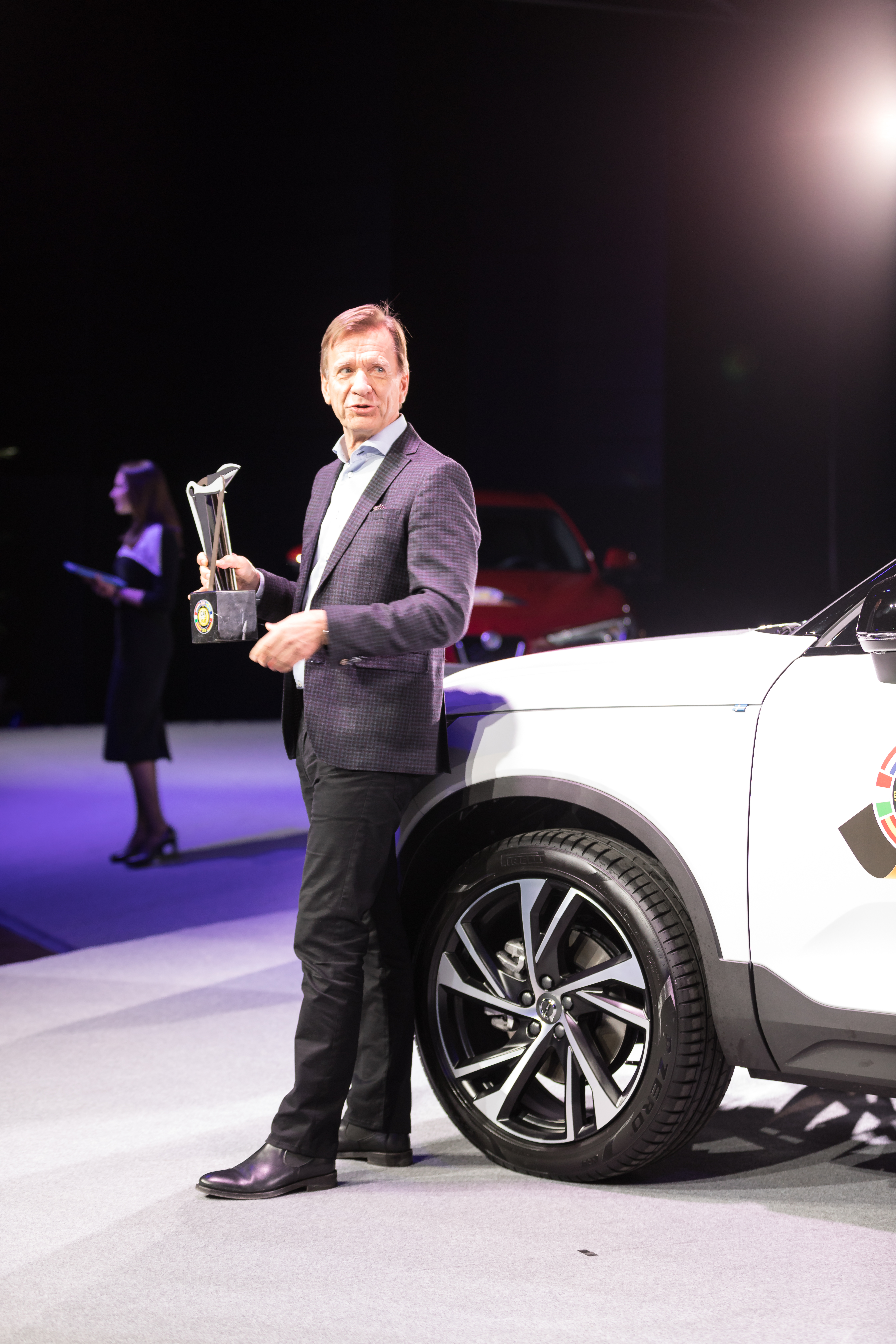 Håkan Samuelsson at COTY 2018